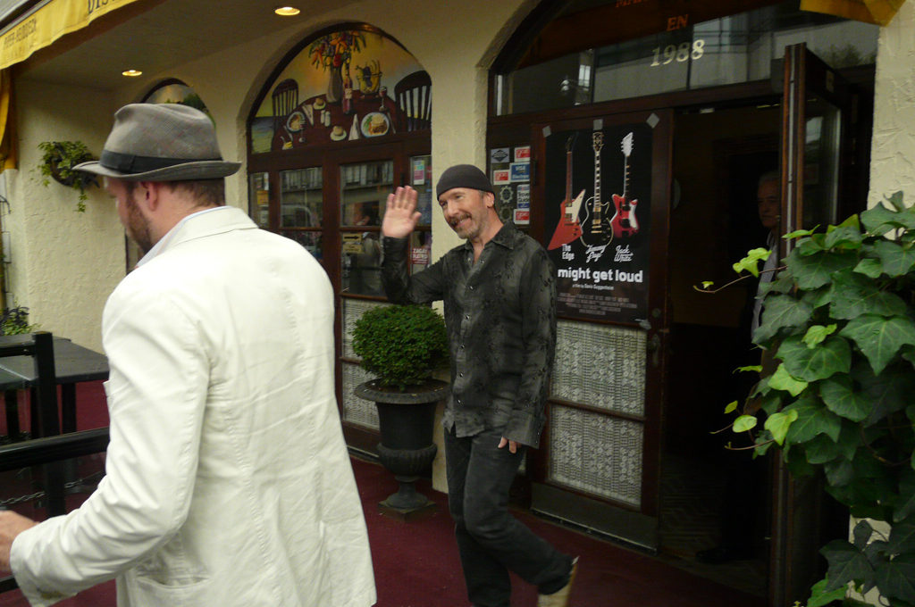 U2 Guitarist Edge and Rock God Jimmy Page leave a Bay St. Bistro on route to their Tiff '08 Press Conference for It Might Get Loud